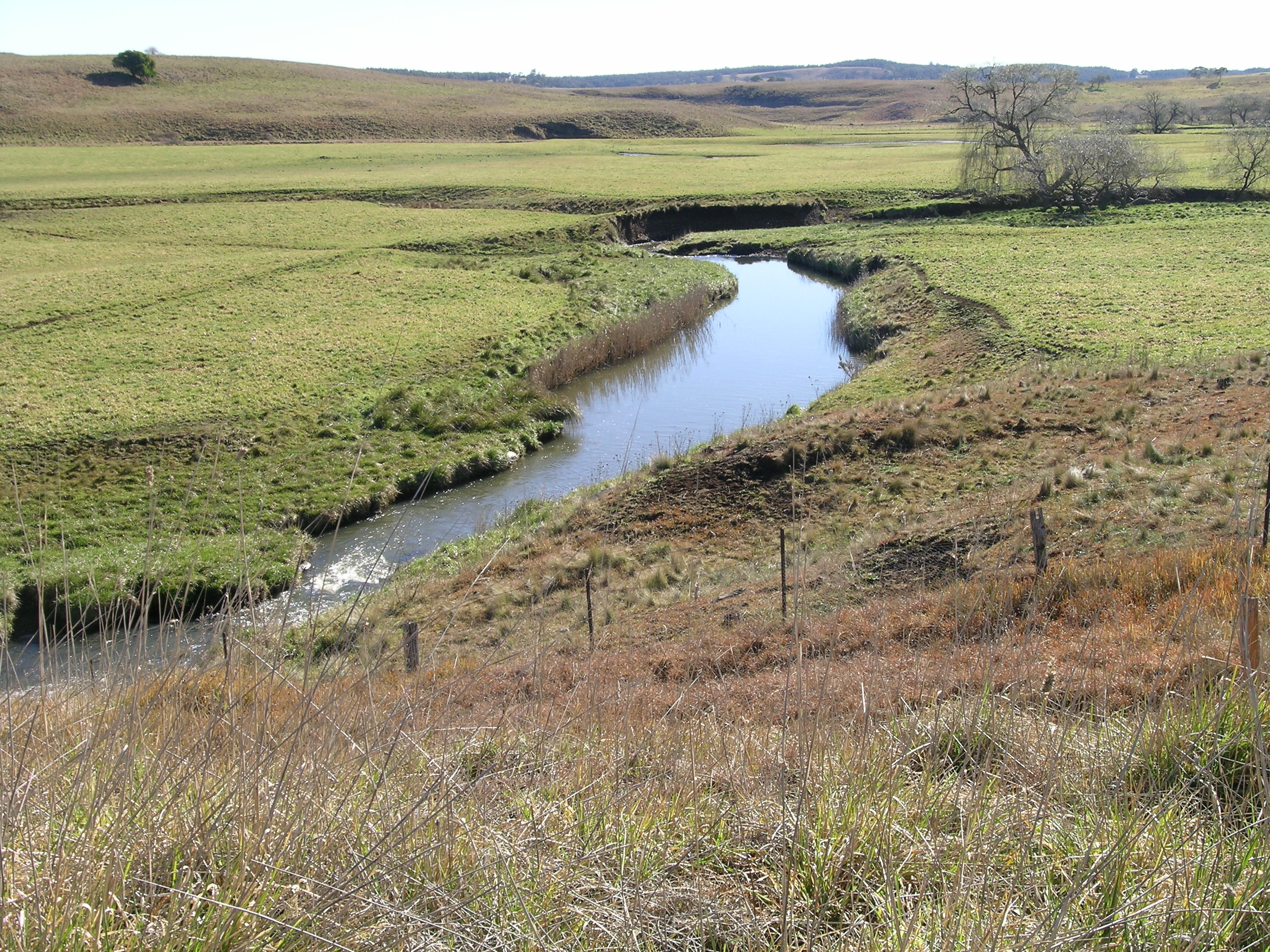 Prime cattle grazing country on the Yarrowitch River near the Oxley Highway.